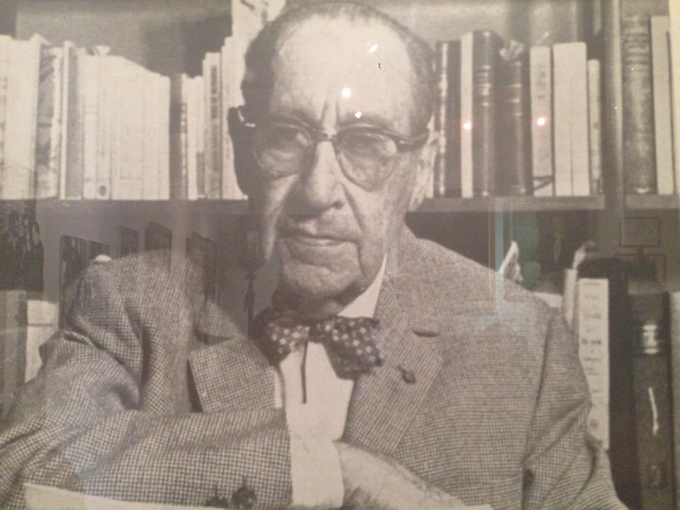 Isidro Fabela donante de la Casa del Risco, San Ángel , México